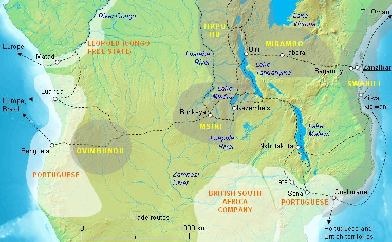 South-Central Africa showing Msiri’s Kingdom, Garanganza, (Katanga), Congo in 1880 related to territories of Mirambo, Tippu Tib, Swahili, and territories of the British, Portuguese and Congo Free State, with principal trade route.